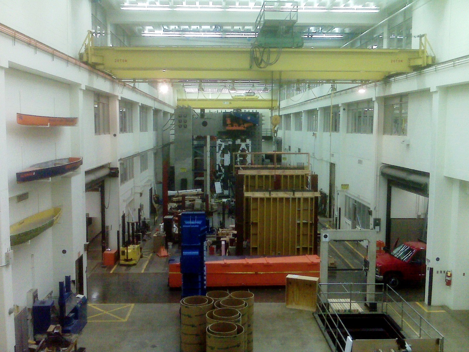 This is a picture of the Crane Bay in Newmark Civil Engineering Laboratory.